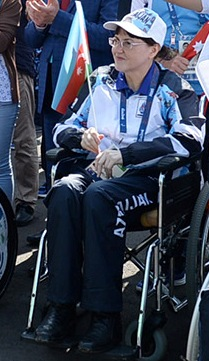 Yelena Taranova at the Azerbaijan Flag Raising Ceremony at the 2016 Summer Paralympics